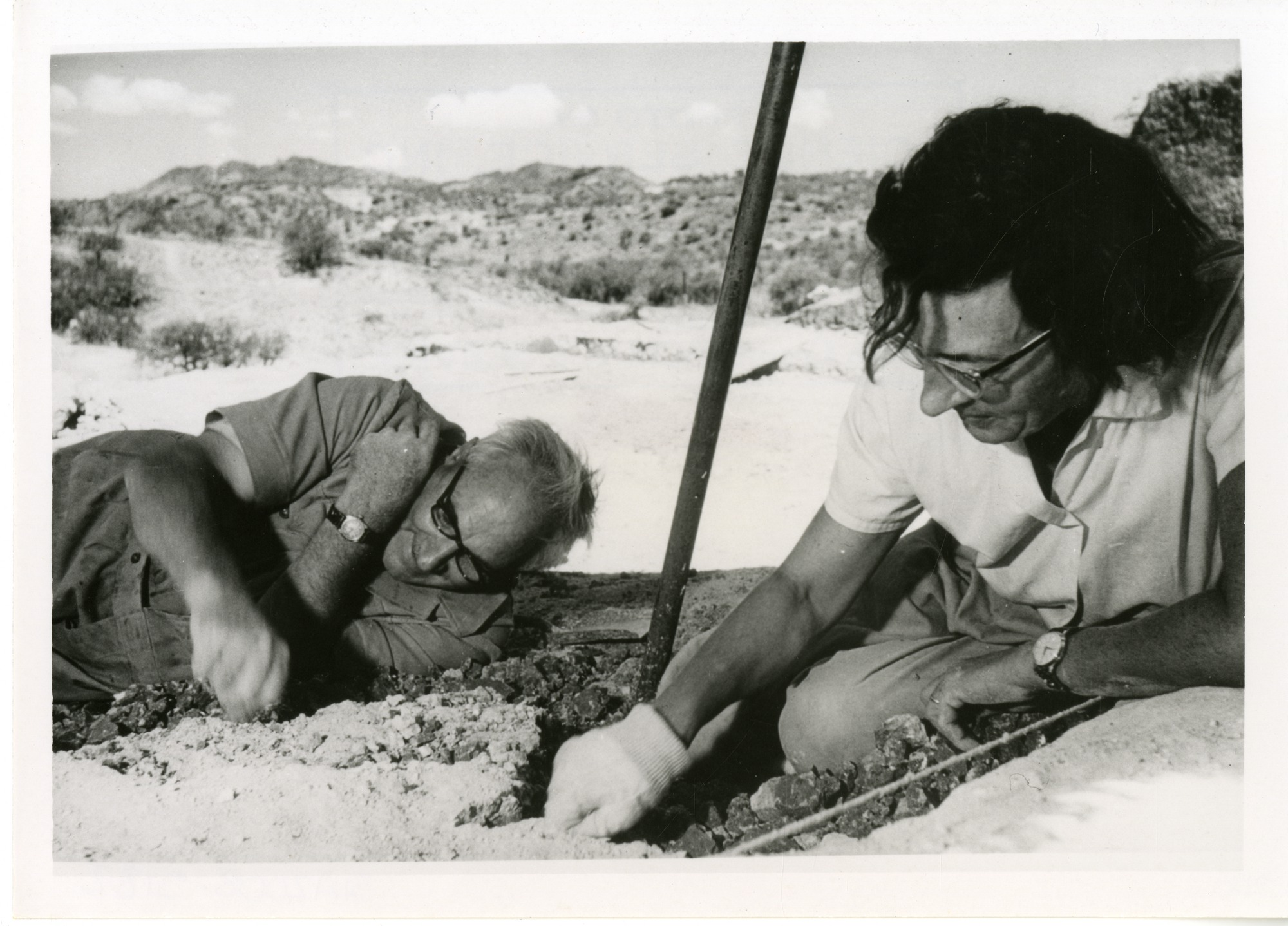 Creator: National Geographic Society (U.S.) Subject: Leakey, Mary D (Mary Douglas) 1913-1996 Leakey, L. S. B (Louis Seymour Bazett) 1903-1972 Type: Black-and-White Prints Topic: Women anthropologists Women archaeologists Archaeology Anthropology Local number: SIA Acc. 90-105 [SIA-SIA2008-5182] Summary: Louis Seymour Bazett Leakey (1903-1972) and his wife, archeologist and anthropologist Mary Douglas Nicol Leakey (1913-1996), digging at Oduvai Gorge, Tanzania, Africa. Cite as: Acc. 90-105 - Science Service, Records, 1920s-1970s, Smithsonian Institution Archives Persistent URL:Link to data base record Repository:Smithsonian Institution Archives View more collections from the Smithsonian Institution.